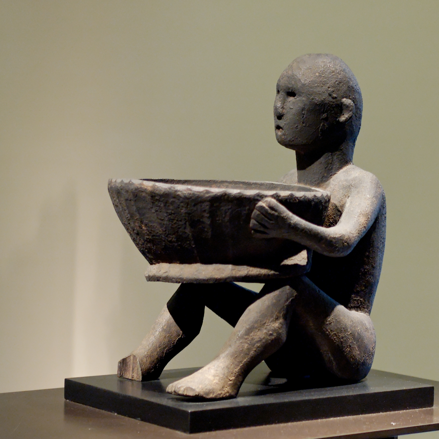 Bulul guardian figure of the Ifugao people. The bulul are anthropomorphical representations of rice divinities protecting the seeds and the harvest. Wood and sacrificial remains, northern Luzón Island (Philippines), 15th century.